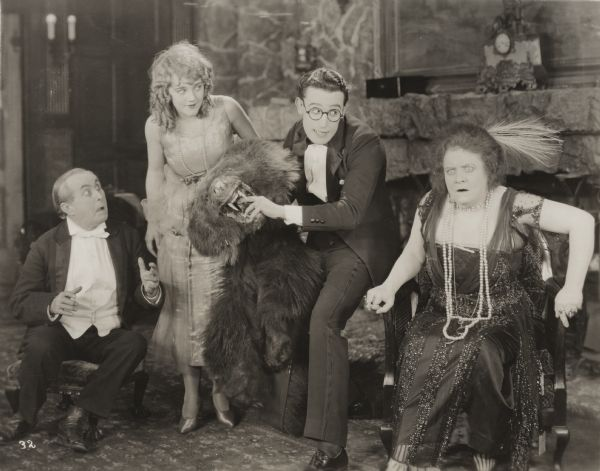 James T. Kelley, Mildred Davis, Harold Lloyd, and Aggie Herring in a scene still for the American comedy film Among Those Present (1921).